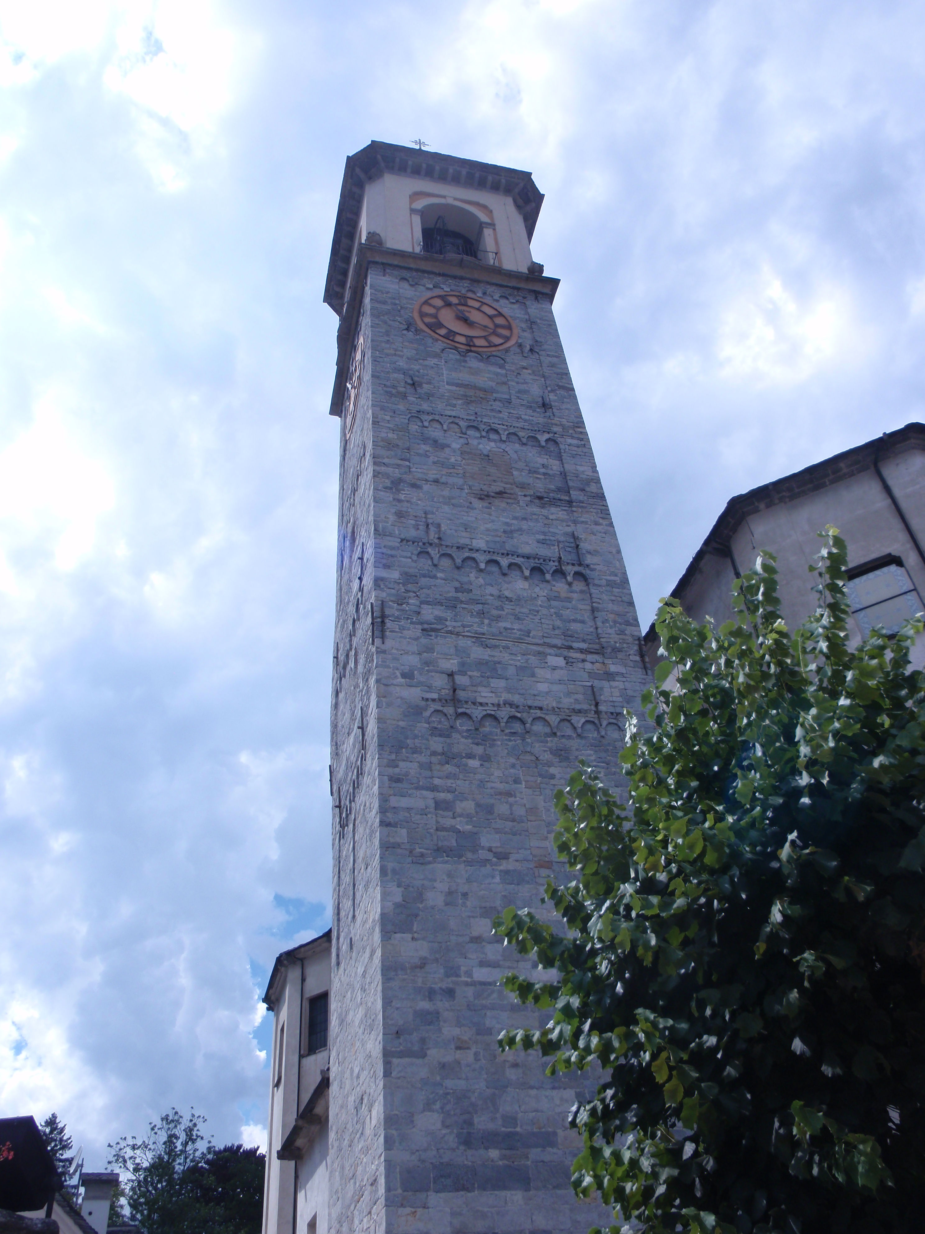 Il campanile millenario di Santa Maria Maggiore